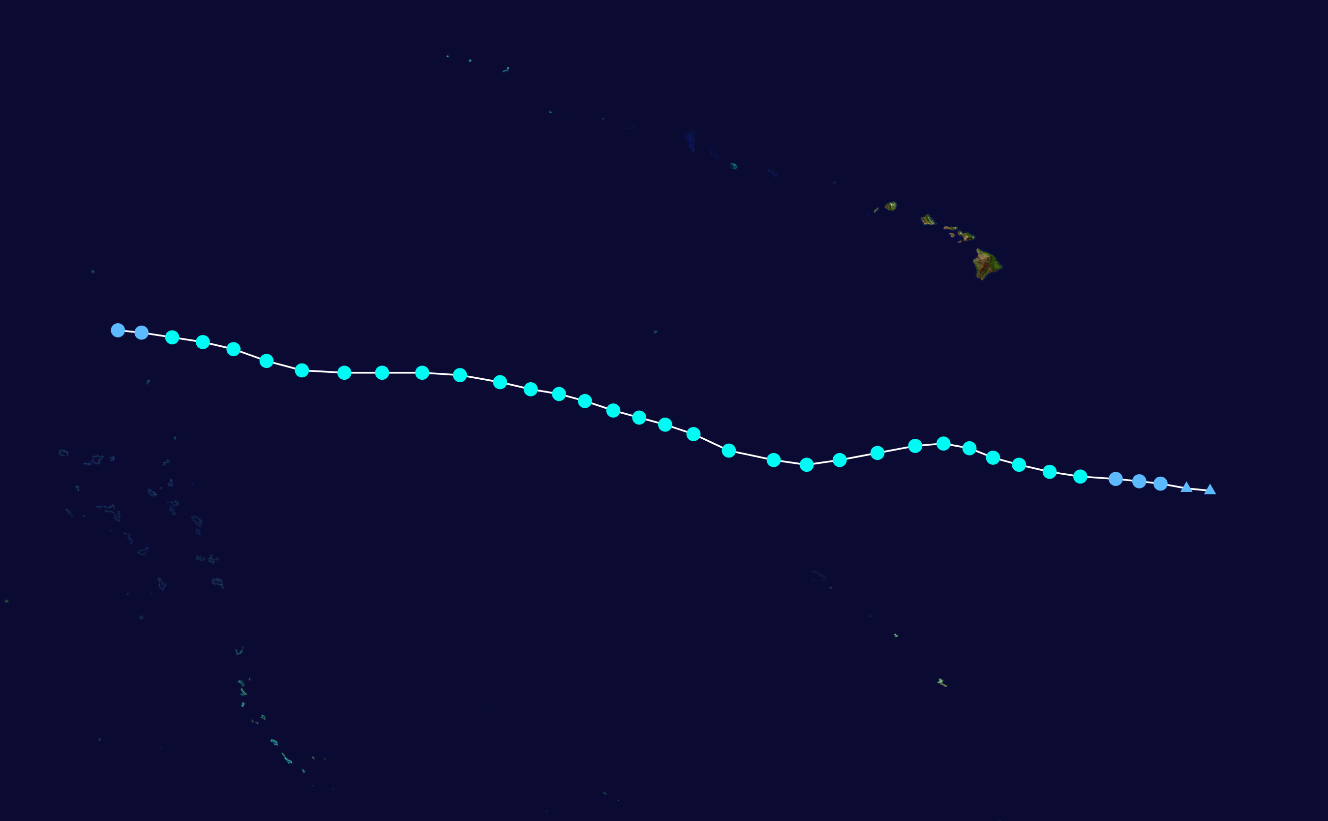 Track map of Tropical Storm Aka of the 1990 Pacific hurricane season. The points show the location of the storm at 6-hour intervals. The colour represents the storm's maximum sustained wind speeds as classified in the Saffir–Simpson hurricane wind scale (see below), and the shape of the data points represent the nature of the storm, according to the legend below. Saffir–Simpson hurricane wind scale Tropical depression≤38 mph≤62 km/h Category 3111–129 mph178–208 km/h Tropical storm39–73 mph63–118 km/h Category 4130–156 mph209–251 km/h Category 174–95 mph119–153 km/h Category 5≥157 mph≥252 km/h Category 296–110 mph154–177 km/h Unknown Storm typeTropical cycloneSubtropical cycloneExtratropical cyclone / Remnant low / Tropical disturbance